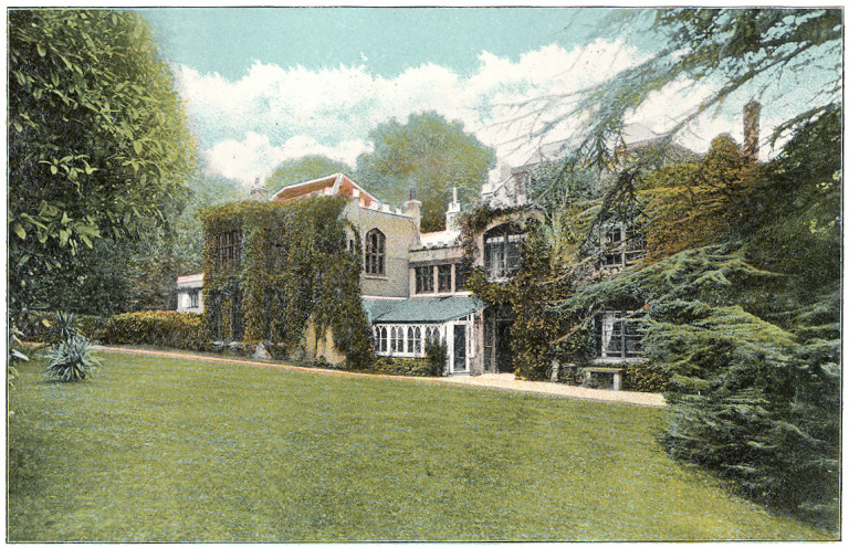 FARRINGFORD, FRESHWATER, LORD TENNYSON'S RESIDENCE.—The residence of the late Laureate is in the neighbourhood between freshwater Gate and Alum Bay, secluded by trees almost to invisibility. The front is covered with greenery, a fine magnolia growing round and over the front door. From under the lateral branches of a fine spreading cedar tree the Poet could look into Freshwater Bay and yet himself not be seen. The park-like grounds are pleasant to walk in, and are open to the inspection of visitors on Thursdays at certain seasons. In his poem of invitation to Rev. F. D. Maurice in 1854 he well describes it: "Where far from smoke and noise of town, I watch the twilight falling brown, All round a careless order'd garden, Close to the ridge of a noble down."